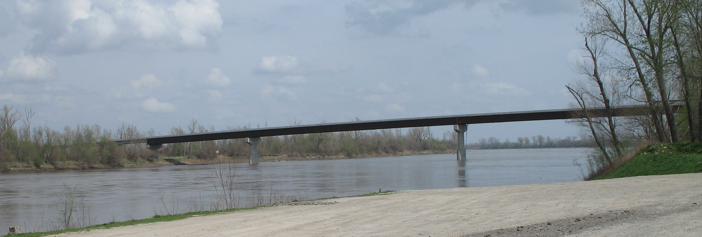 Waverly Bridge from southwest. Photo by poster in March 2007.